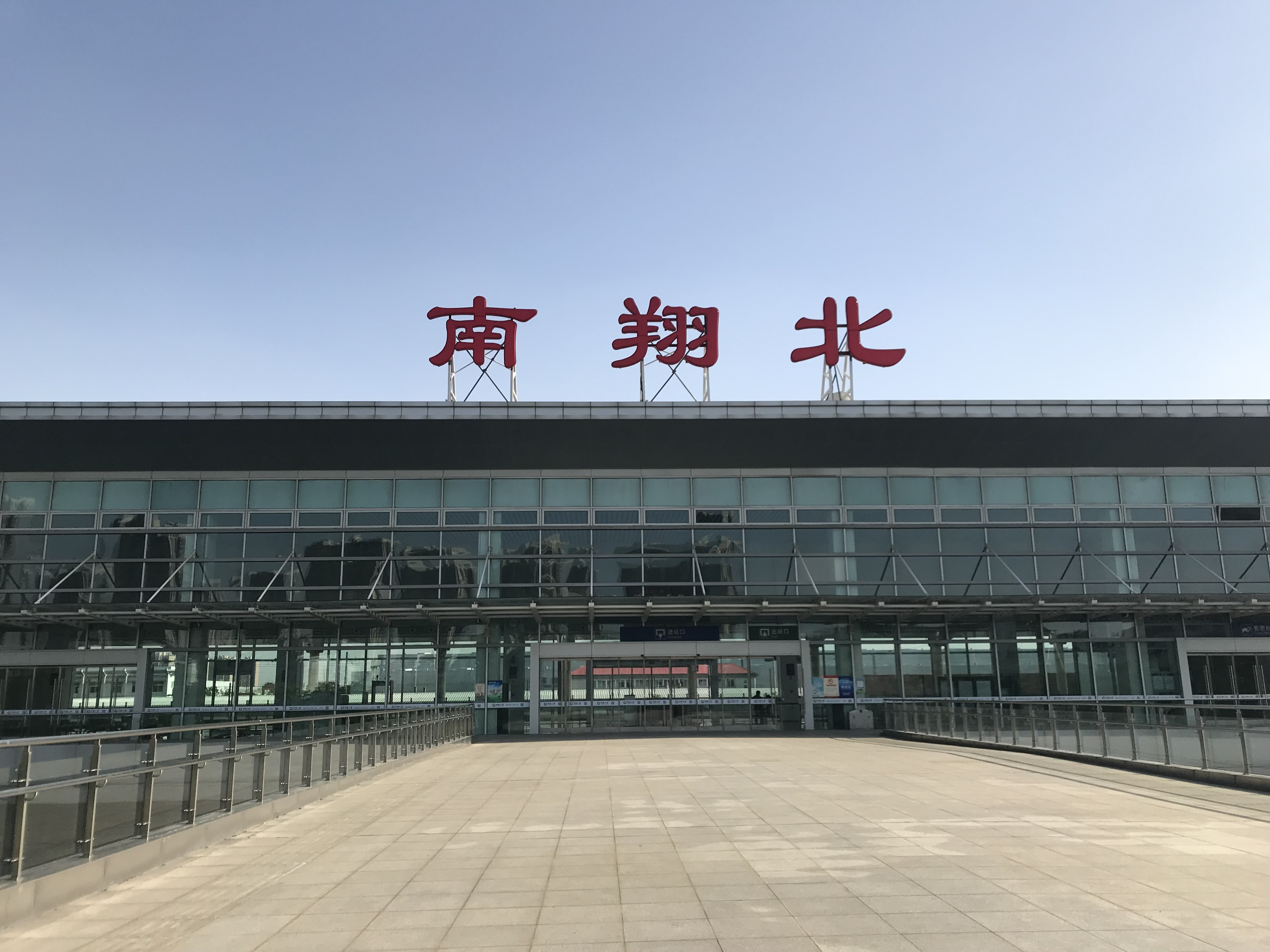 201805 Nanxiangbei Station